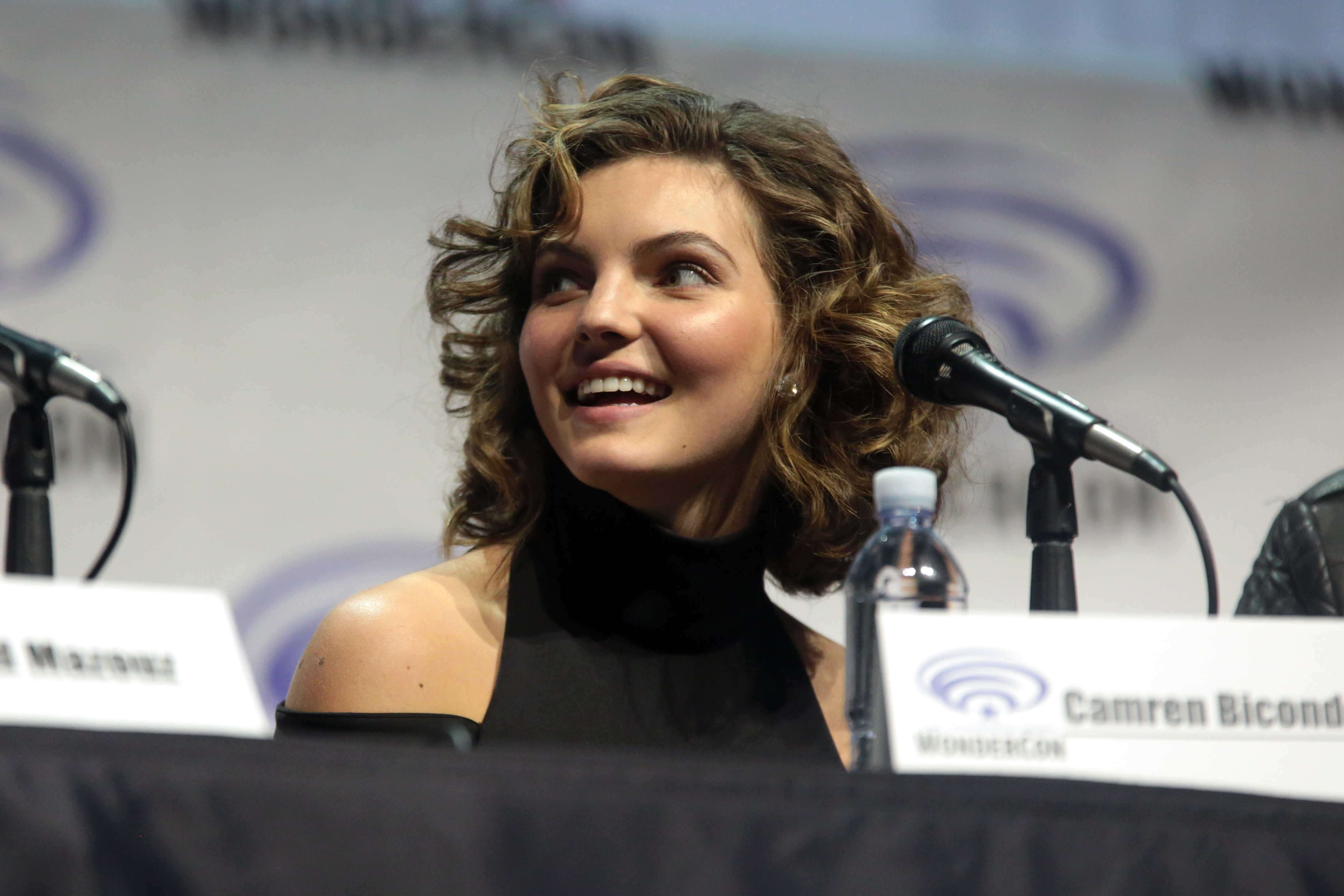 Camren Bicondova speaking at the 2017 WonderCon, for "Gotham", at the Anaheim Convention Center in Anaheim, California.